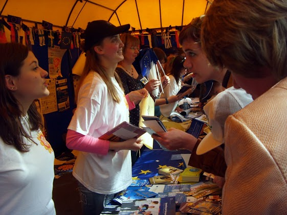 European Day in Kyiv, Ukraine. Tent of european Comission Delegetion to Ukraine on Khreshchatyk street.